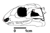 Cropped image of taxon in file name